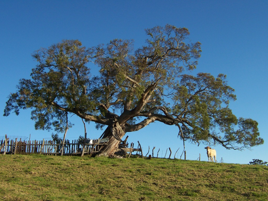 Réunion mountain tamarin (Acacia heterophylla) – Old tree in the meadows of la Plaine des Cafres (Réunion island)